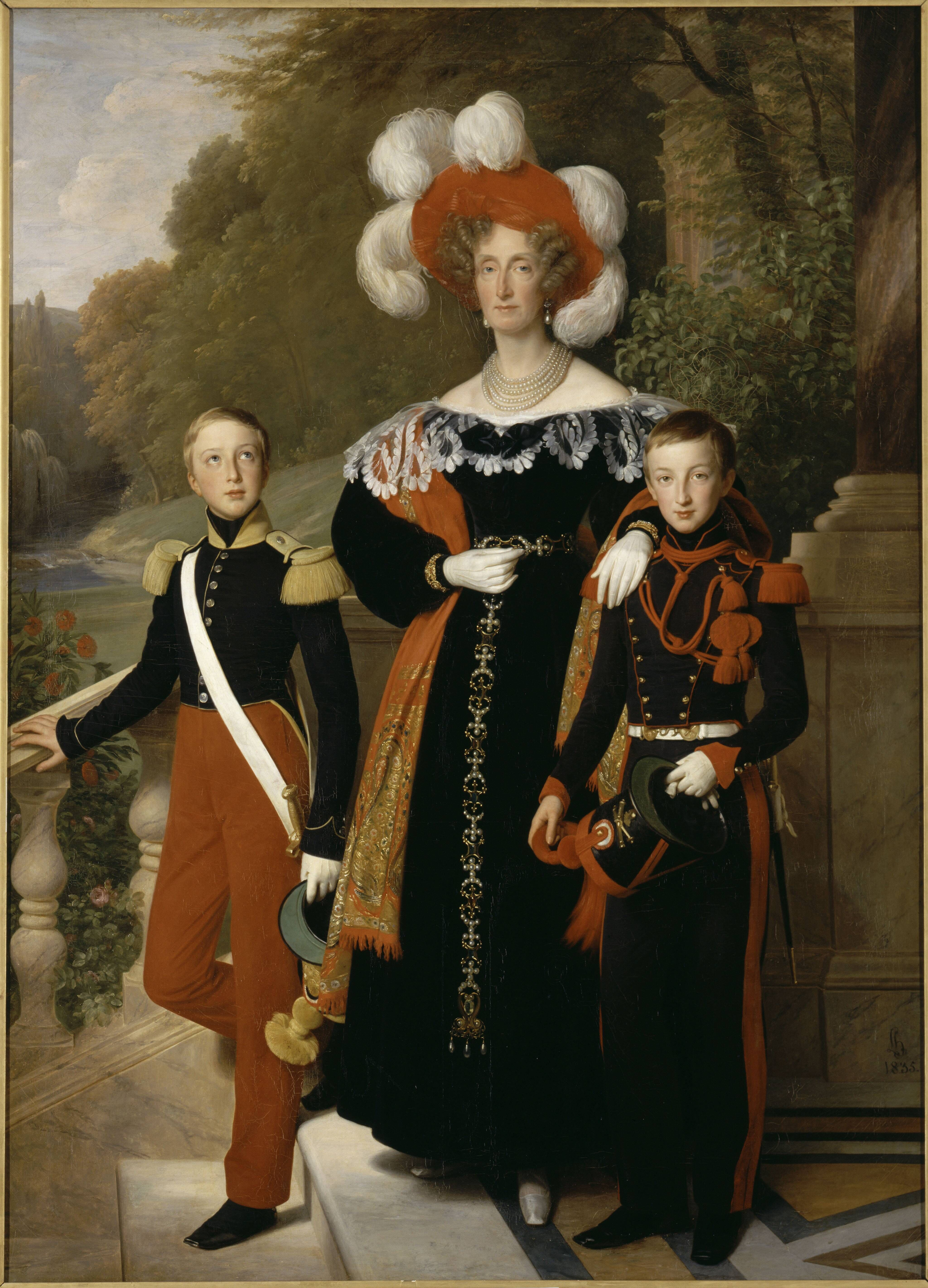 Married to Louis-Phillipe, proclaimed king in July, 1830, she was the last queen to live in Trianon. In the portrait, Marie-Amélie is depicted in the park of the palace of Neuilly accompanied by her two youngest sons, the duc d’Aumale (1822-1897), in the uniform of the light infantry, and the duc de Montpensier (1824-1890), in an artilleryman's uniform. The austerity of her face and her black dress trimmed with lace harmoniously contrasts with her hat trimmed with feathers. On her belt, she wears a "chatelaine", very fashionable during the Romantic period, a chain on which hang useful or decorative items.